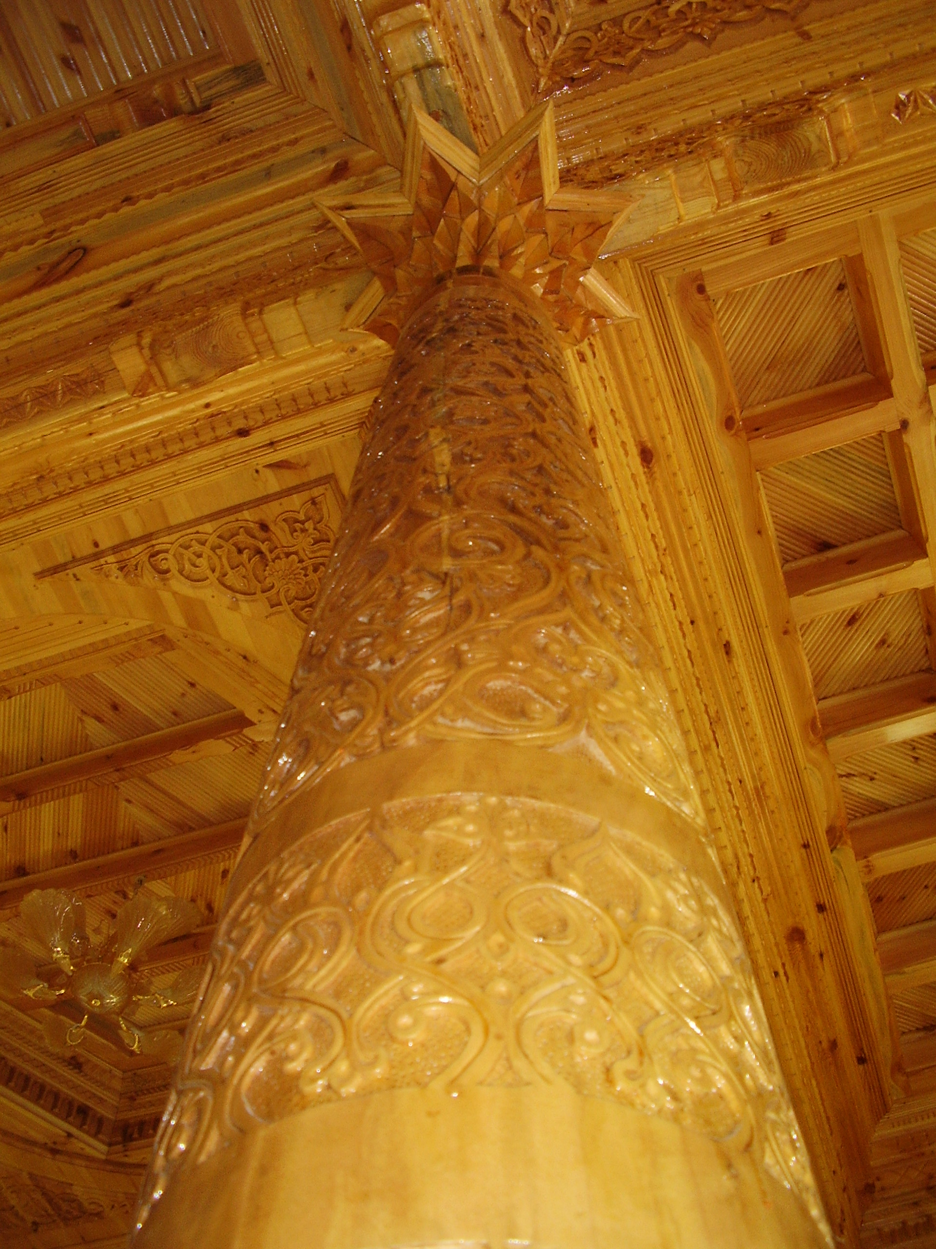 a column inside Tajik tea-house, woor darving